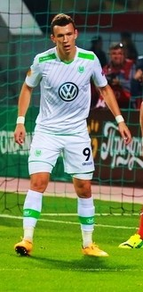 Ivan Perišić